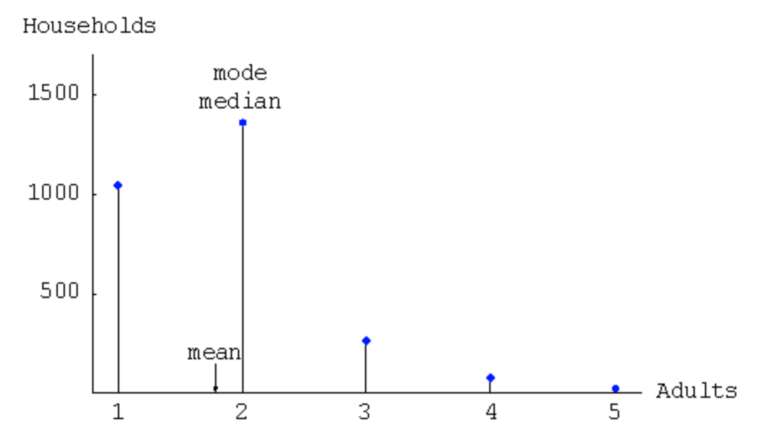 Positive skewness with mean less than median